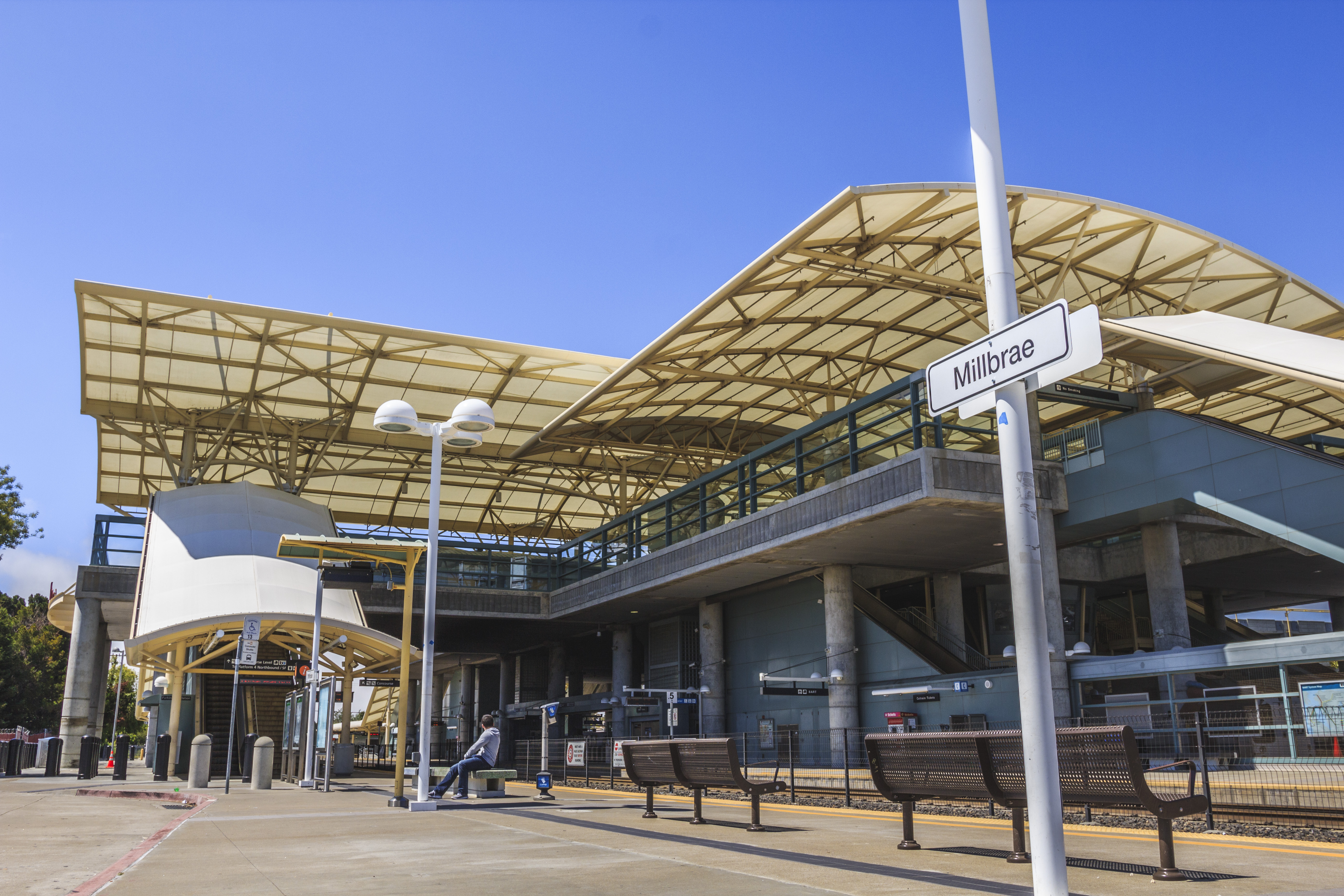 BART-Caltrain Station located in Millbrae